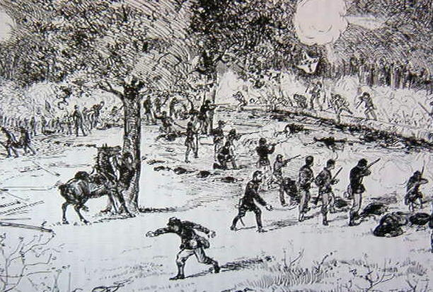 The 22nd Regiment Massachusetts Volunteer Infantry at the Battle of Gaines Mill, Virginia, June 27, 1862